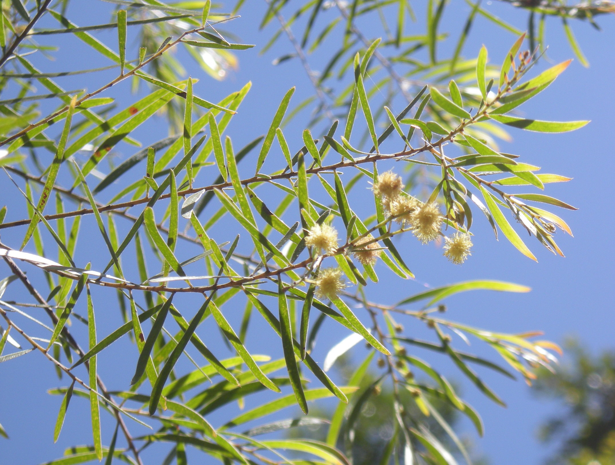 Acacia fimbriata foliage and flowers